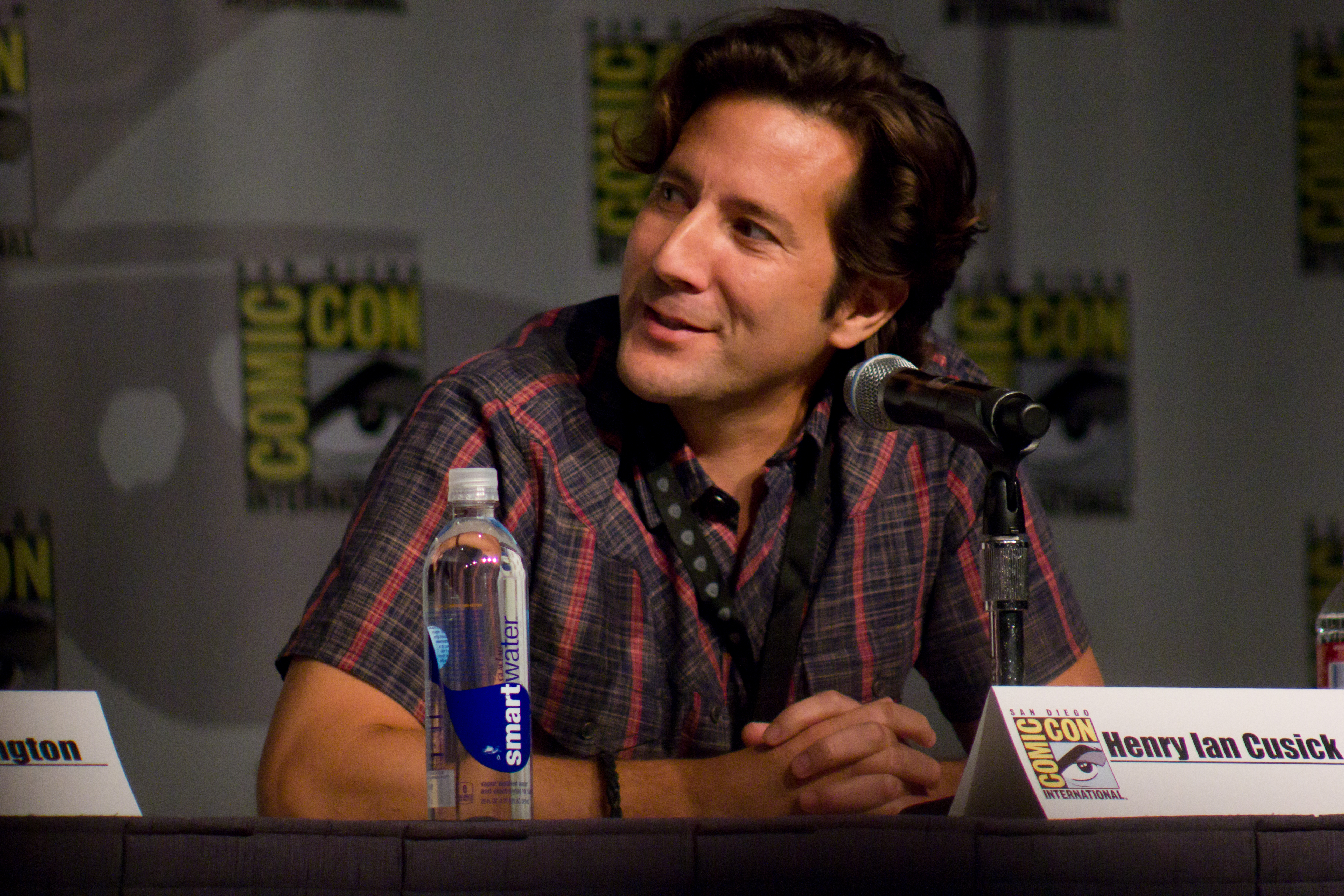 Henry Ian Cusick on the "The 100" panel at the 2013 Comic-Con.